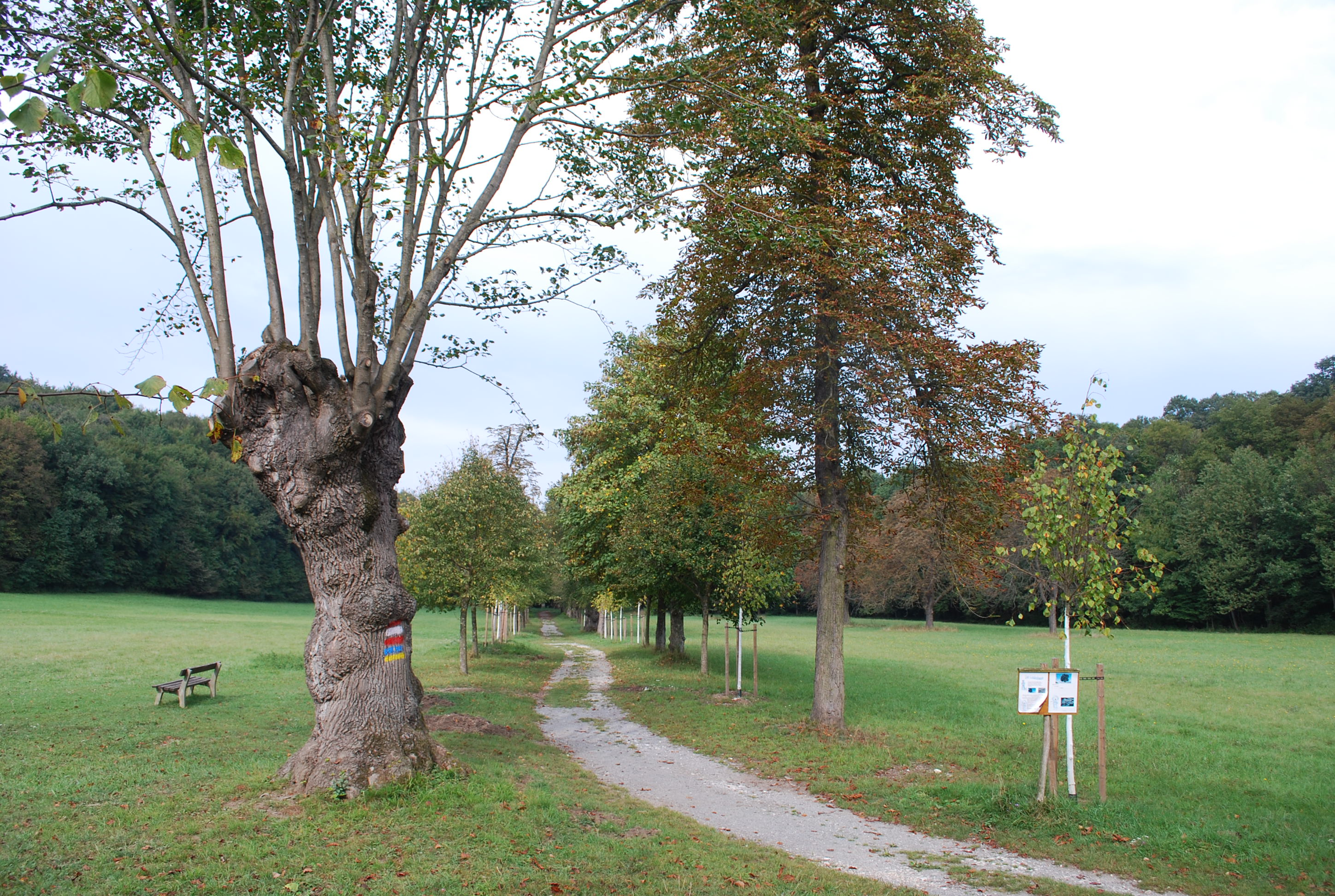 Nature park Mannersdorf-Wüste